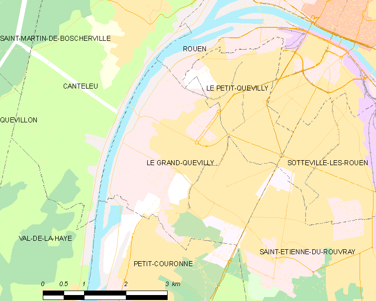 Map of French municipality Le Grand-Quevilly